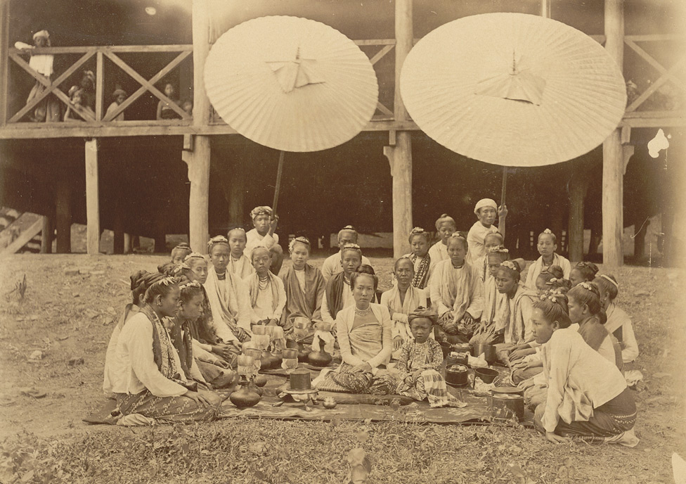 Photograph of a Sawbwa’s wife and child at Wuntho in Burma (Myanmar) from the Elgin Collection: 'Autumn Tour 1898', taken by Felice Beato in c.1890. The portrait was taken in front of a house at Wuntho, showing the wife and child of the Wuntho Sawbwa, a Shan feudal lord, seated on the ground with food baskets. Attendants are arranged around the pair in a semi-circle and two servants hold umbrellas over the group. The woman wears a striped silk hta-mein (wrap-around skirt), a close-fitting jacket of fine muslin or cotton known as an ein-gyi, and necklaces. During the Konbaung Dynasty (1752-1885), rich jewellery, fine fabrics such as silk, and garments such as her jacket were reserved for court officials and their wives by sumptuary laws. After the fall of the Burmese monarchy they were worn by the wealthy. The photograph is from an album devoted almost entirely to Lord Elgin's Burma tour of November to December 1898. Victor Alexander Bruce (1849-1917), ninth Earl of Elgin and 13th Earl of Kincardine, served as Viceroy of India between 1894 and 1899.